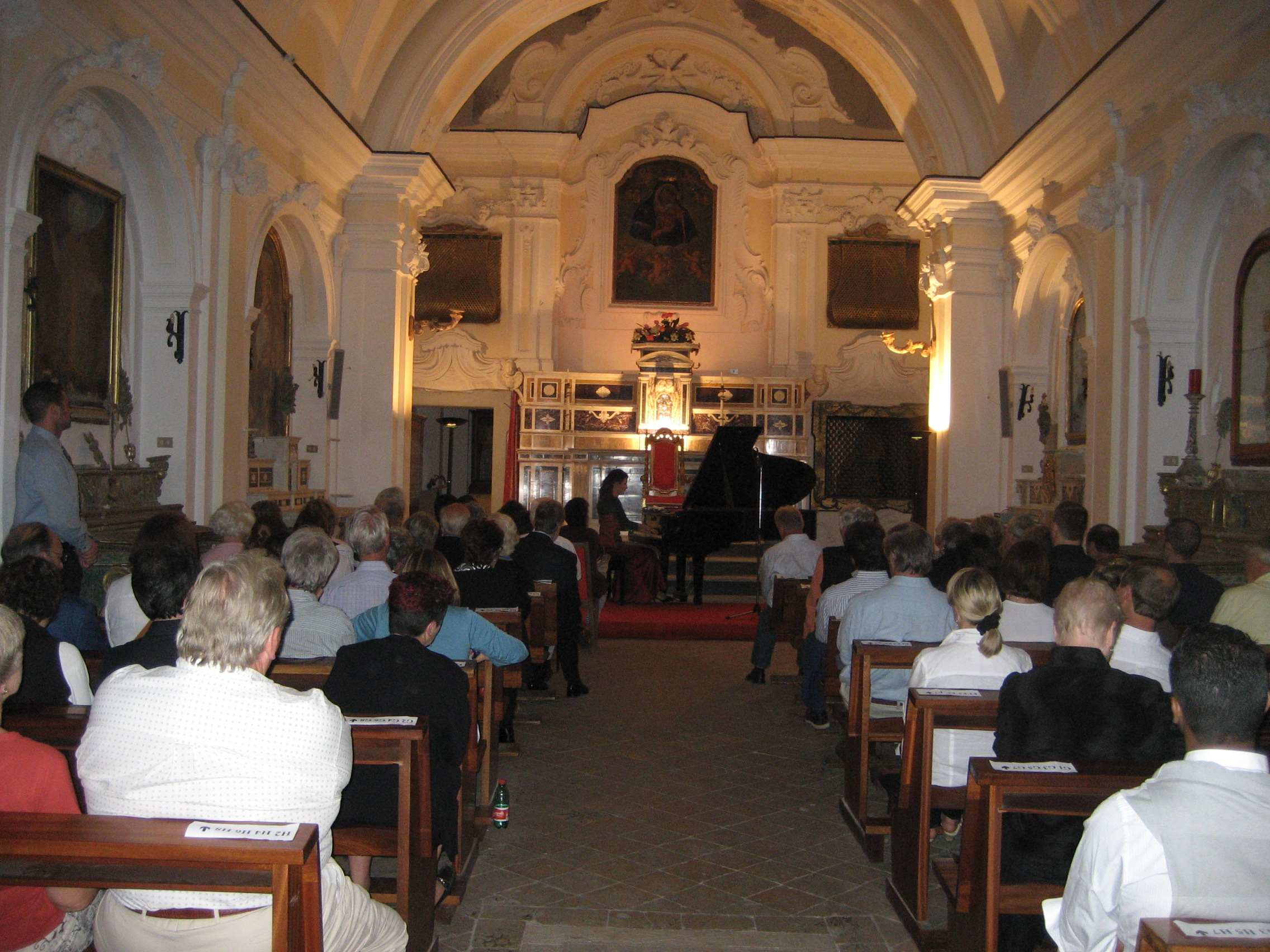 Chamber Music on the Amalfi Coast - Conca dei Marini